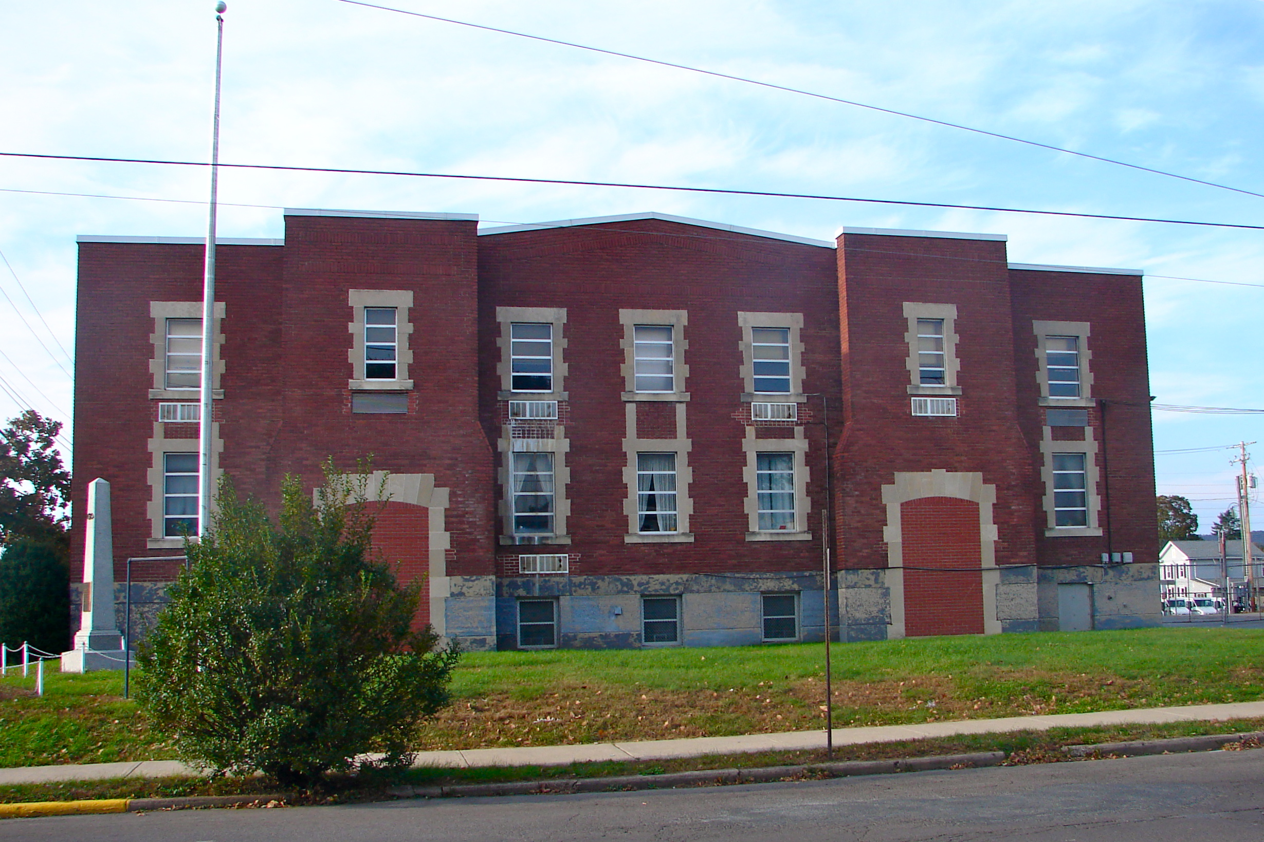 Berwick Armory on the NRHP since November 14, 1991. At 201 Pine Street, Berwick, Columbia County, Pennsylvania.